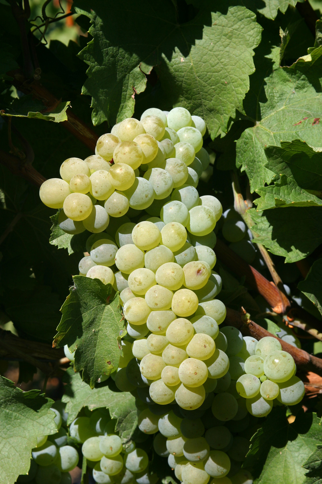 Leafs and grapes of the grape variety Weißer Elbling.